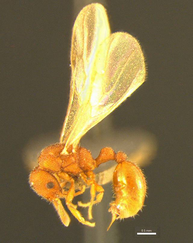 Profile view of the Tyrannomyrmex alii paratype gyne. Collected on 23 May 2016 in Periyar National Park, Idukki District, Western Ghats, India National Center for Biological Sciences, Bangalore, India NCBS specimen NCBS-AP037 Antcat specimen NCBS-AP037